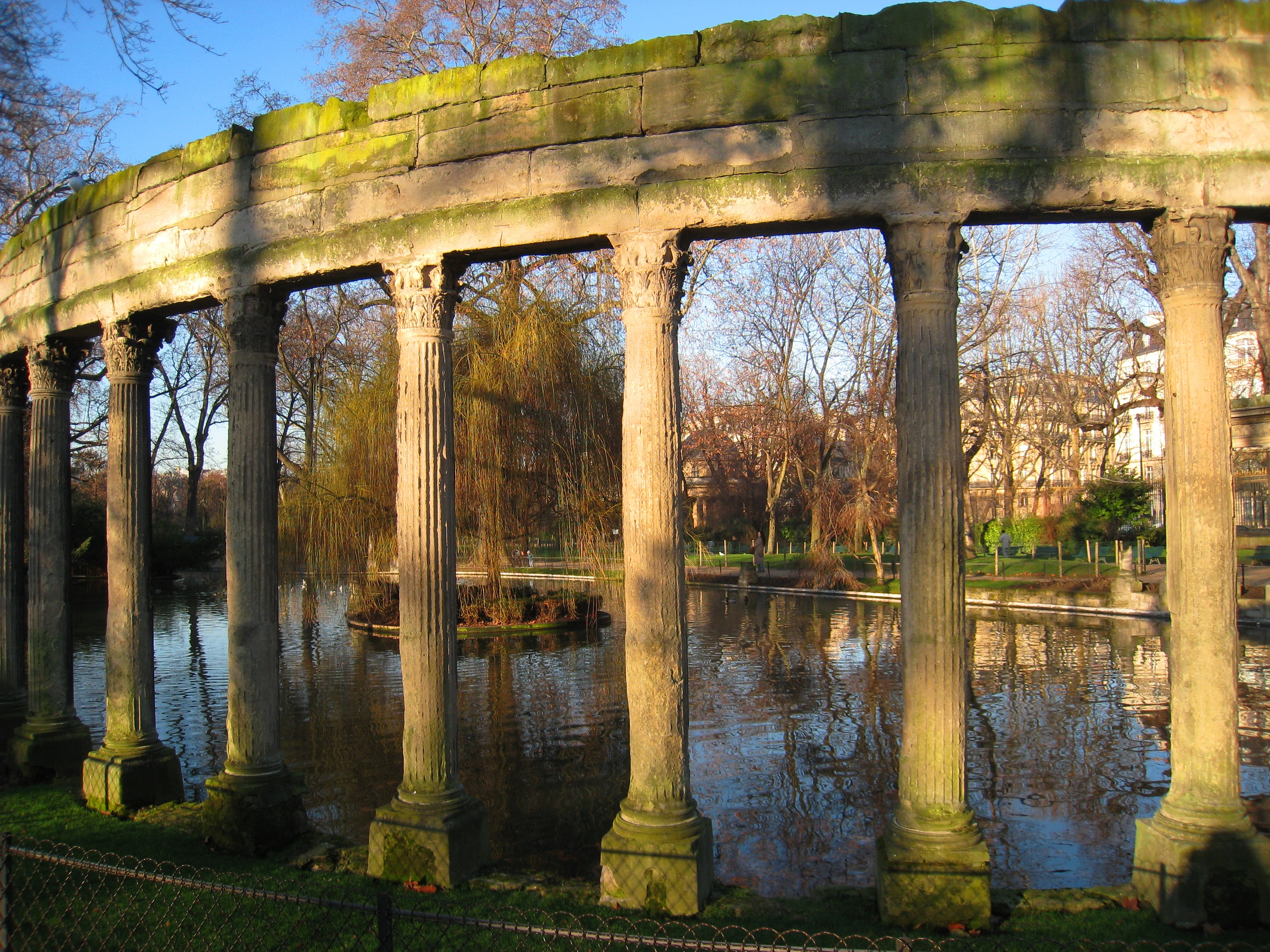 Parc Monceau, Paris, France - La Colonnade. The original work is old enough so that copyright (if any) has long since expired.